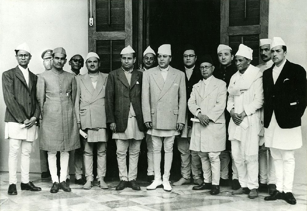 1951 meeting of King Tribhuwan, Nepali Congress leader (later PM) Matrika Prasad Koirala and other Congress leaders